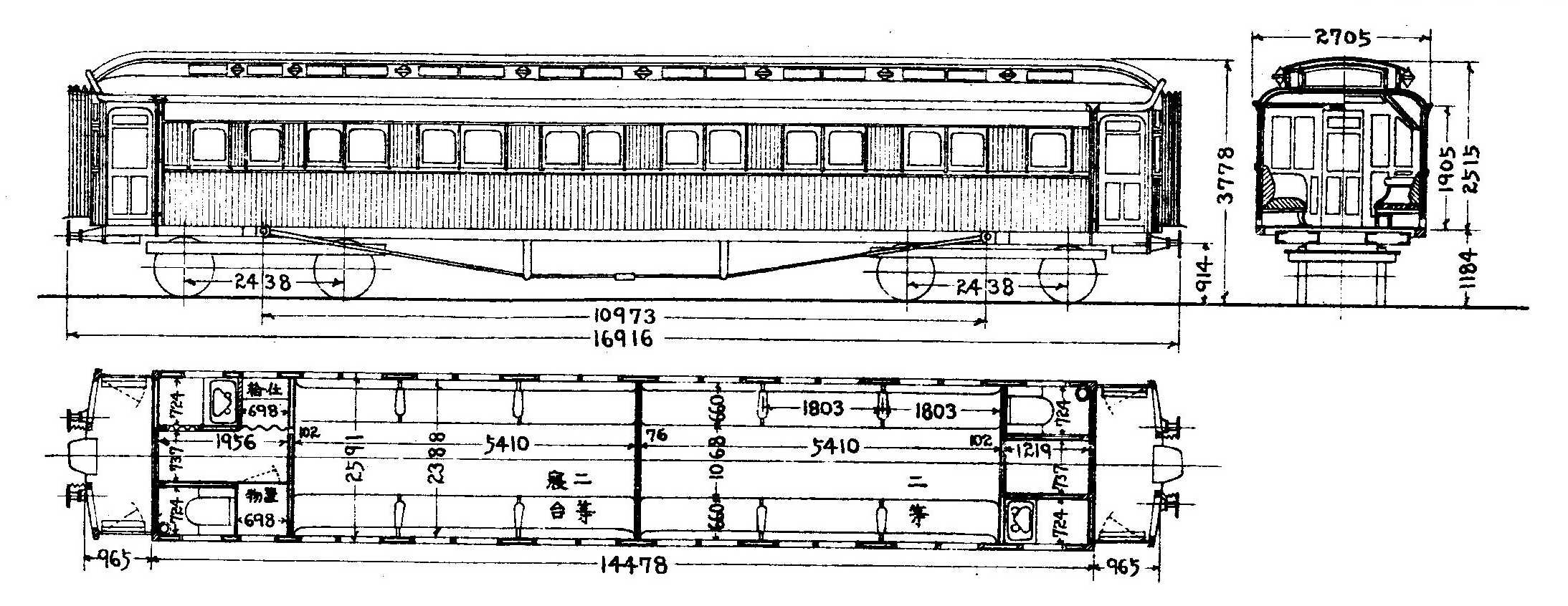 Type drawing of JGR's Ronero5120 type passenger car